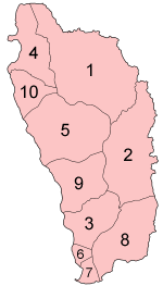 Map of the parishes of Dominica, numbered in English (native language) alphabetical order. Saint Andrew Saint David Saint George Saint John Saint Joseph Saint Luke Saint Mark Saint Patrick Saint Paul Saint Peter